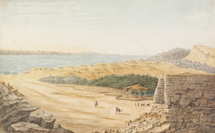 Watercolour painting of the Sinai near the Gulf of Aqaba, painted during the survey of the Red Sea (1829-1834)